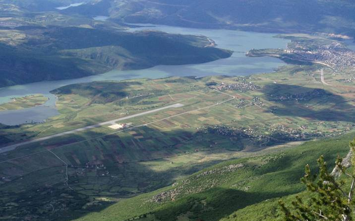 Fshati Shtiqen dhe qyteti i Kukesit marre nga Gjalica